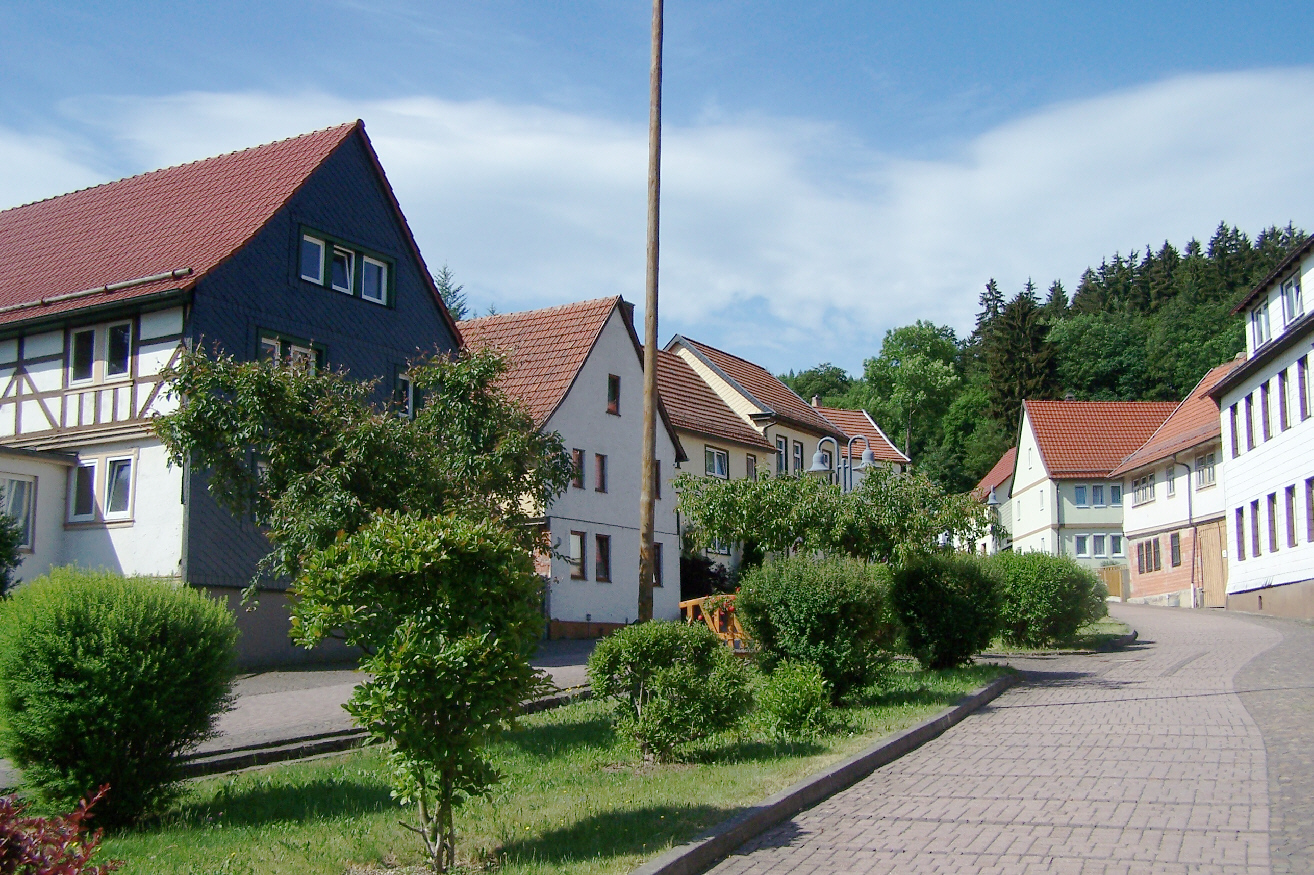 Engelsbach village.